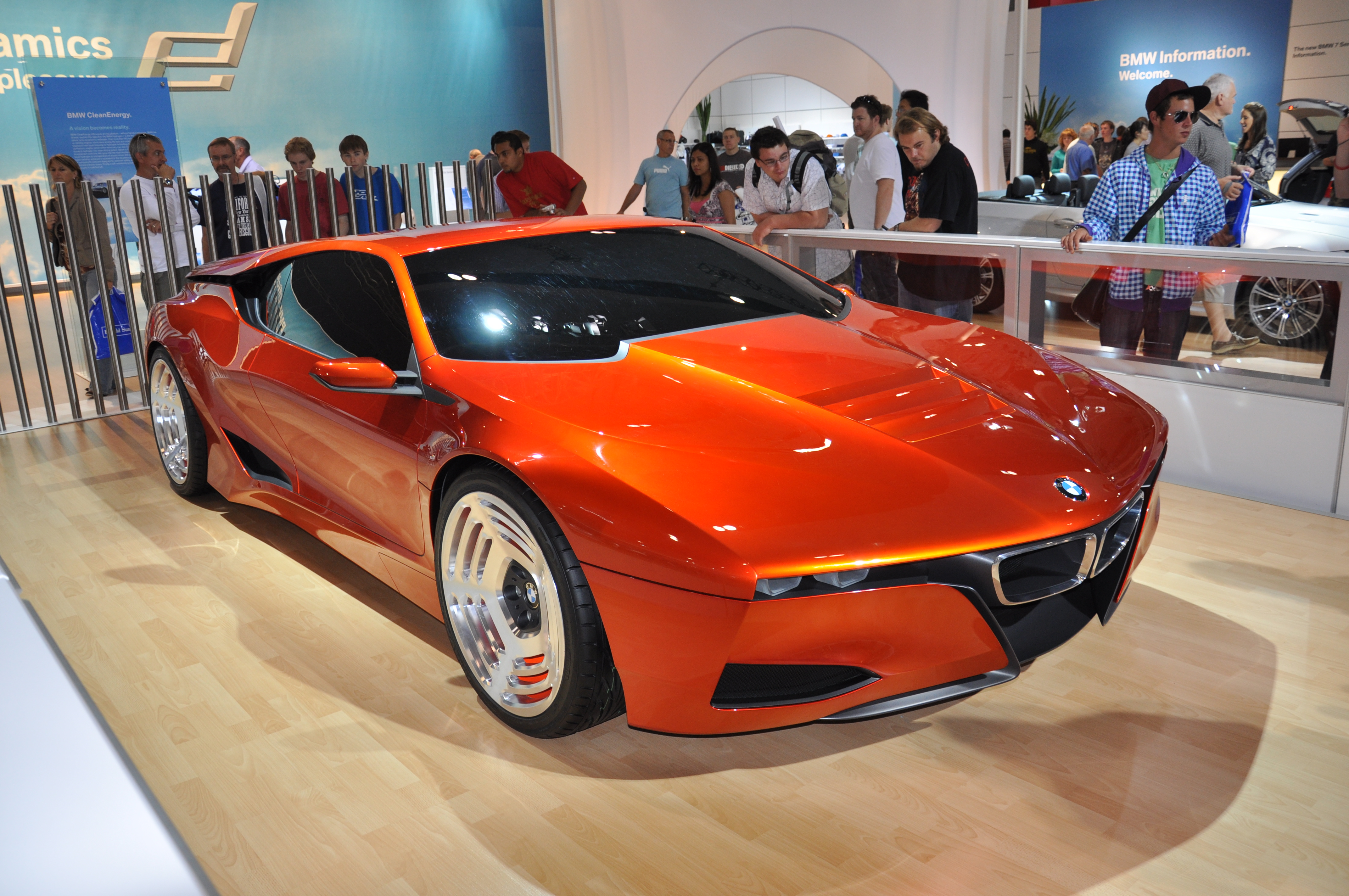 BMW M1 Hommage. Picture taken a Melbourne Car Show, 2009. Source by .au